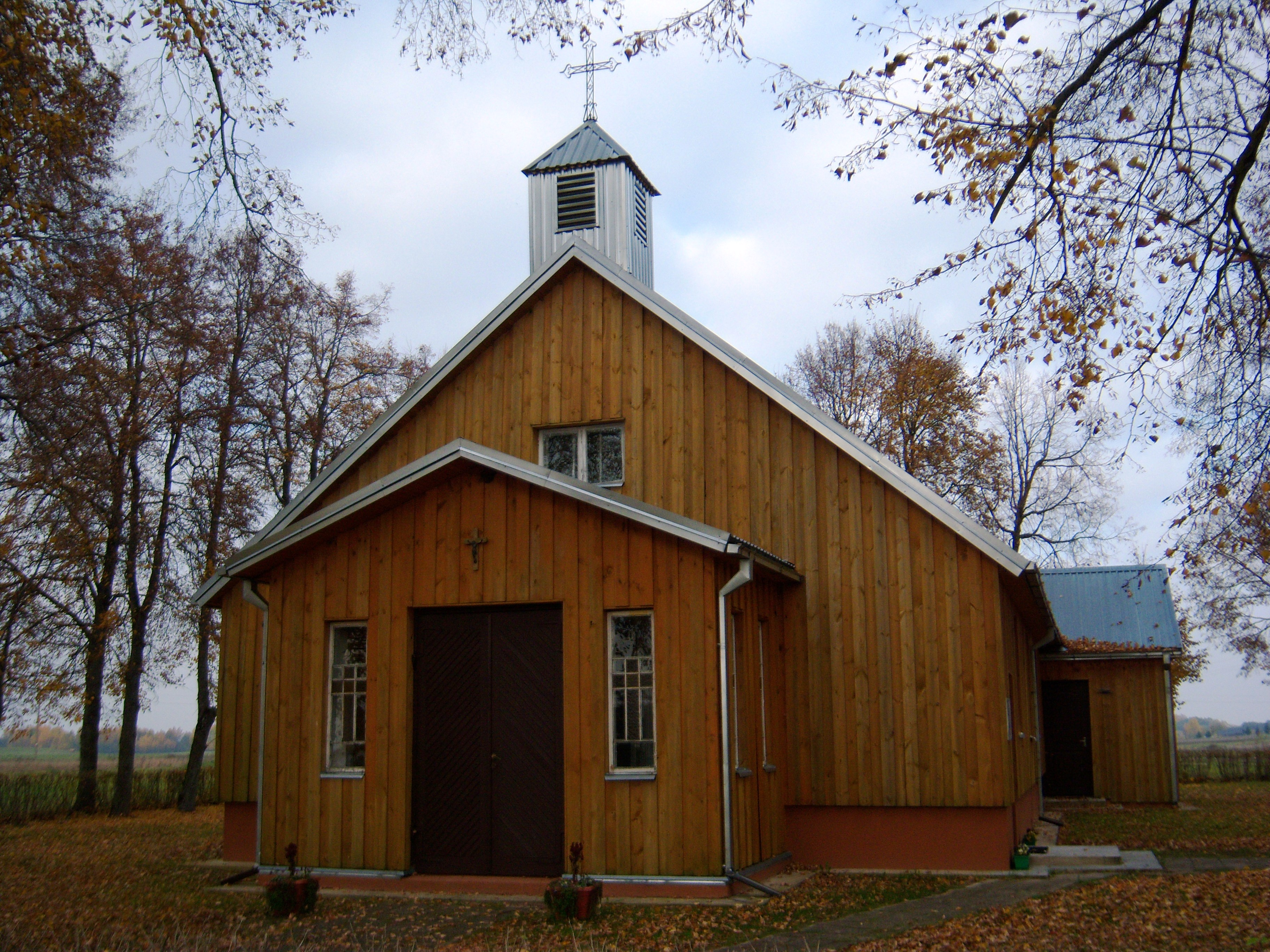 Roman Catholic Church, Burbiškis, Anykščiai District, Lithuania